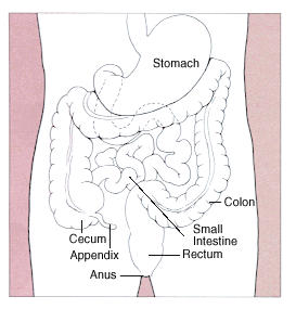 Note: See the version numbered to create or enhance one translation. If you can, help make this description accessible to all by translating it into other languages – thanks!